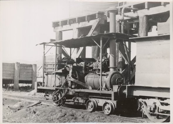 Beaudesert Shire tramway 4-2-OT, "Foden" at Tabooba, Queensland, 12 September, 1944 [picture] / J.L. Buckland.